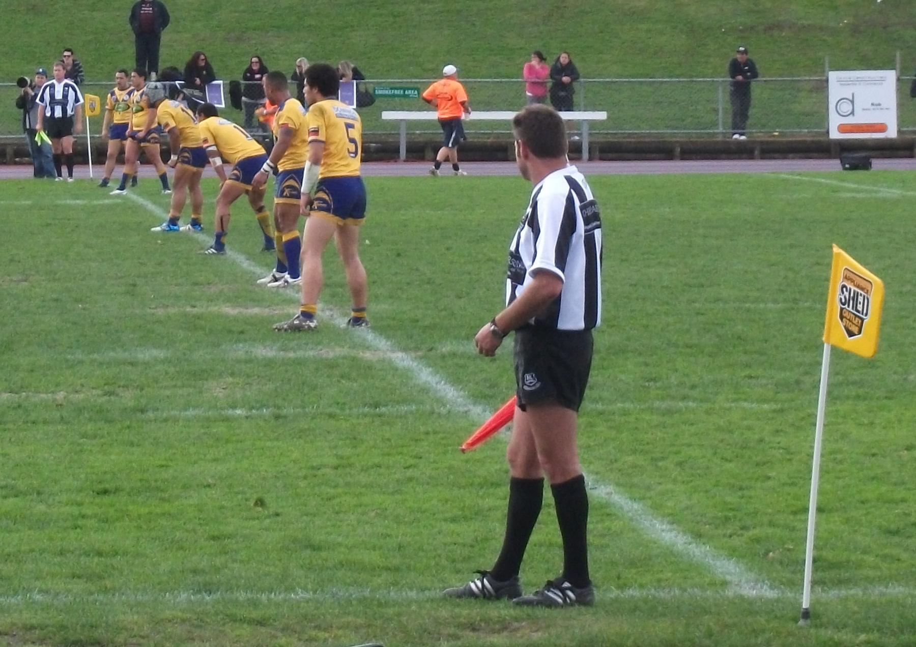 The Mt Albert Lions kick off in the Grand Final v Otahuhu on 28 August 2010